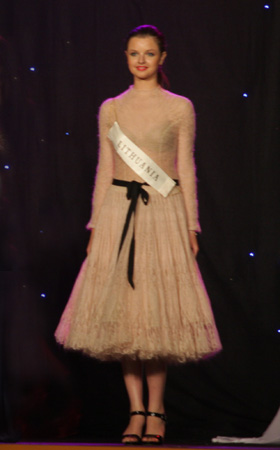 Miss Lithuania 2008 Gabriele Martirosianaite during Miss World 08